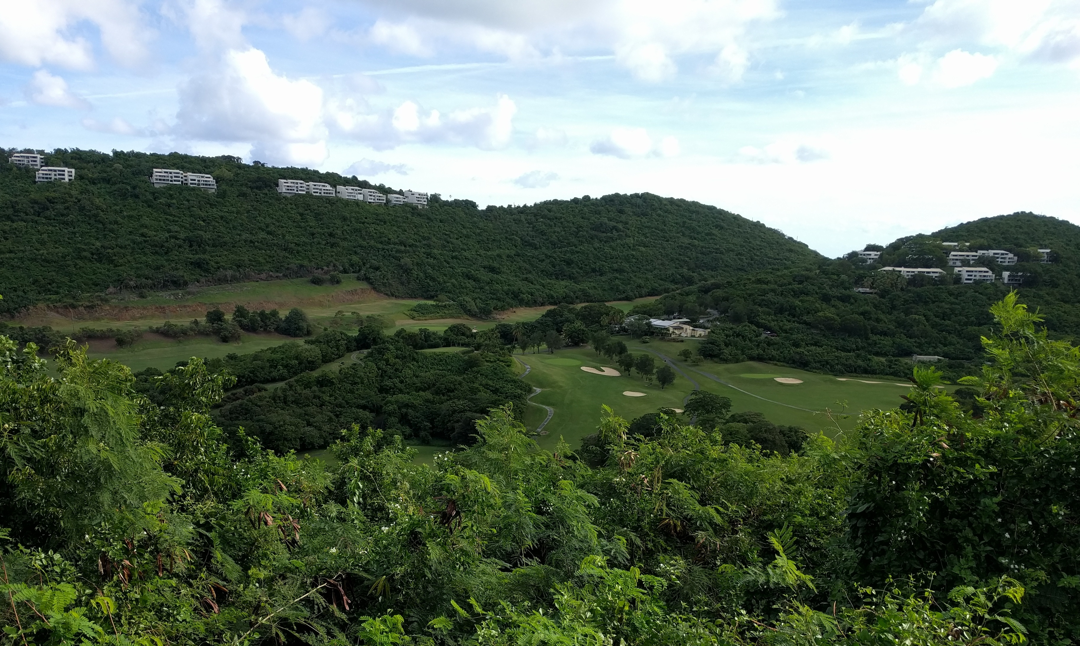 Overlooking Mahogany Run Golf Course and condominiums, St Thomas, USVI, Jan 2017.